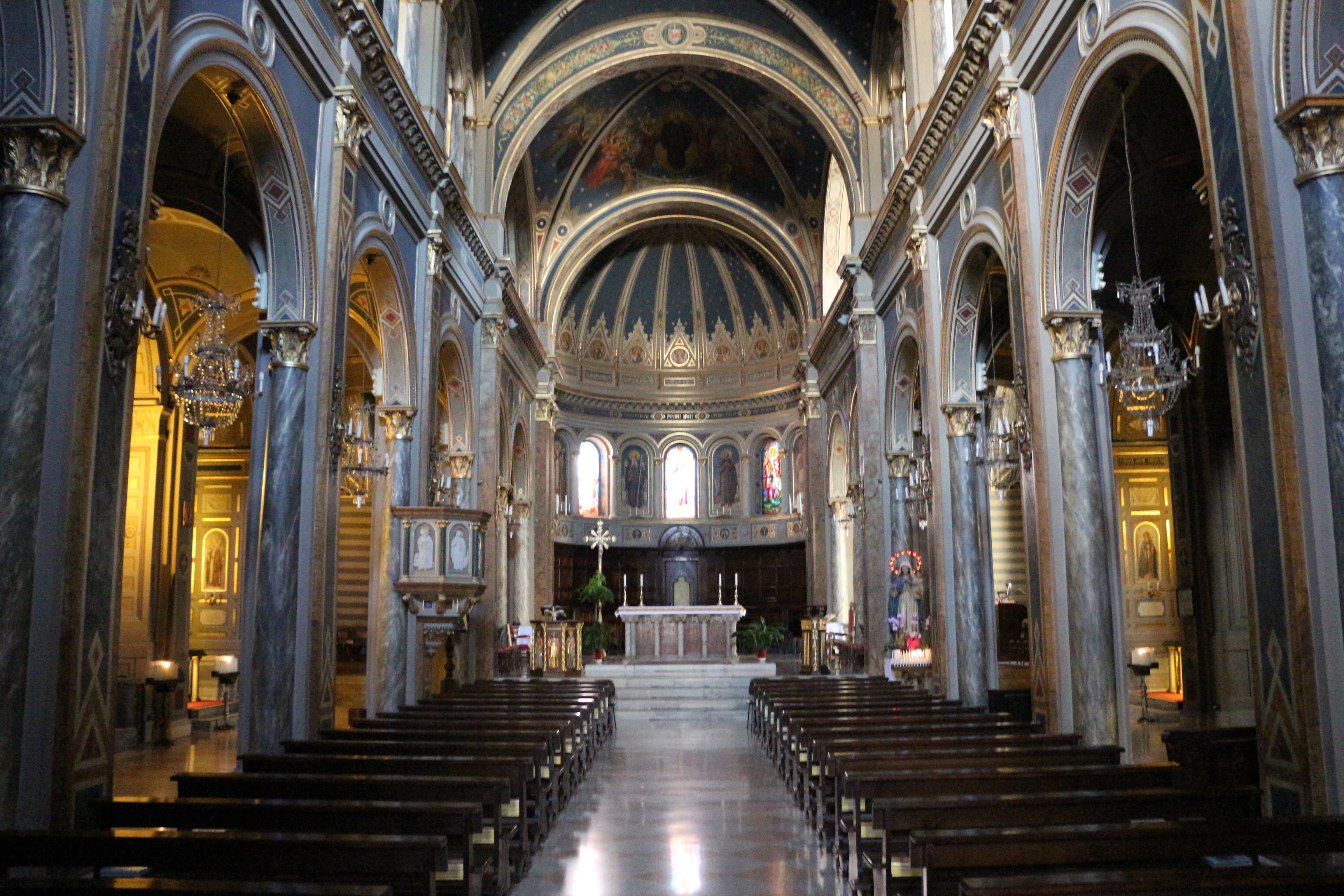 Cathedral (Gualdo Tadino)